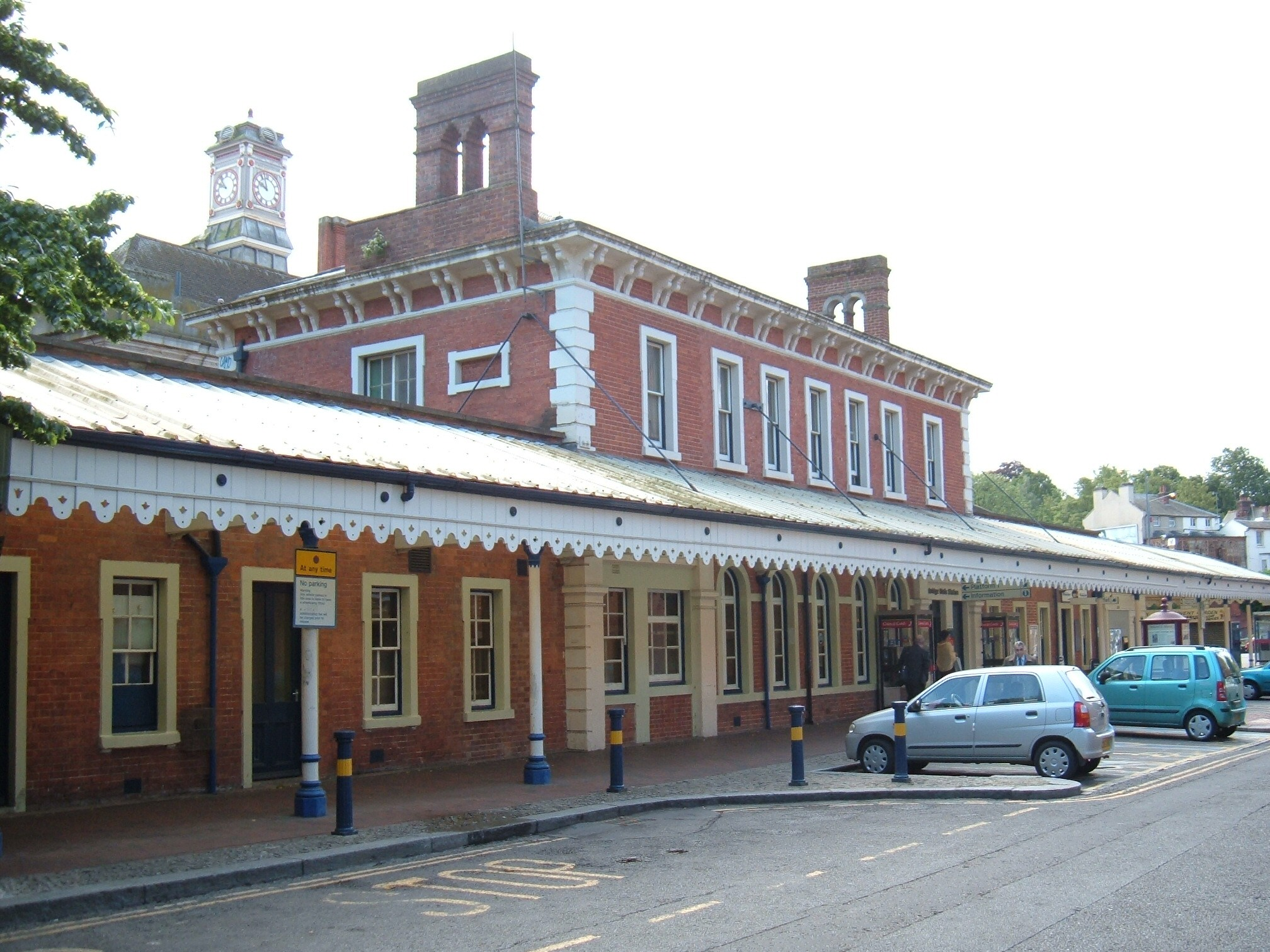 Tunbridge Wells, Kent, England, railway station western approach. Taken by contributor June 2006.